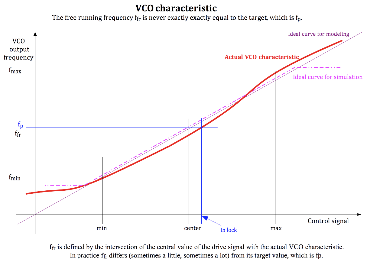 The input-output characteristic of a VCO meant for use inside a CDR, with emphasis on the ideal and actual curves, plus identification of the free-running frequency as opposed to the target frequency that should be present when driven by its nominal input level